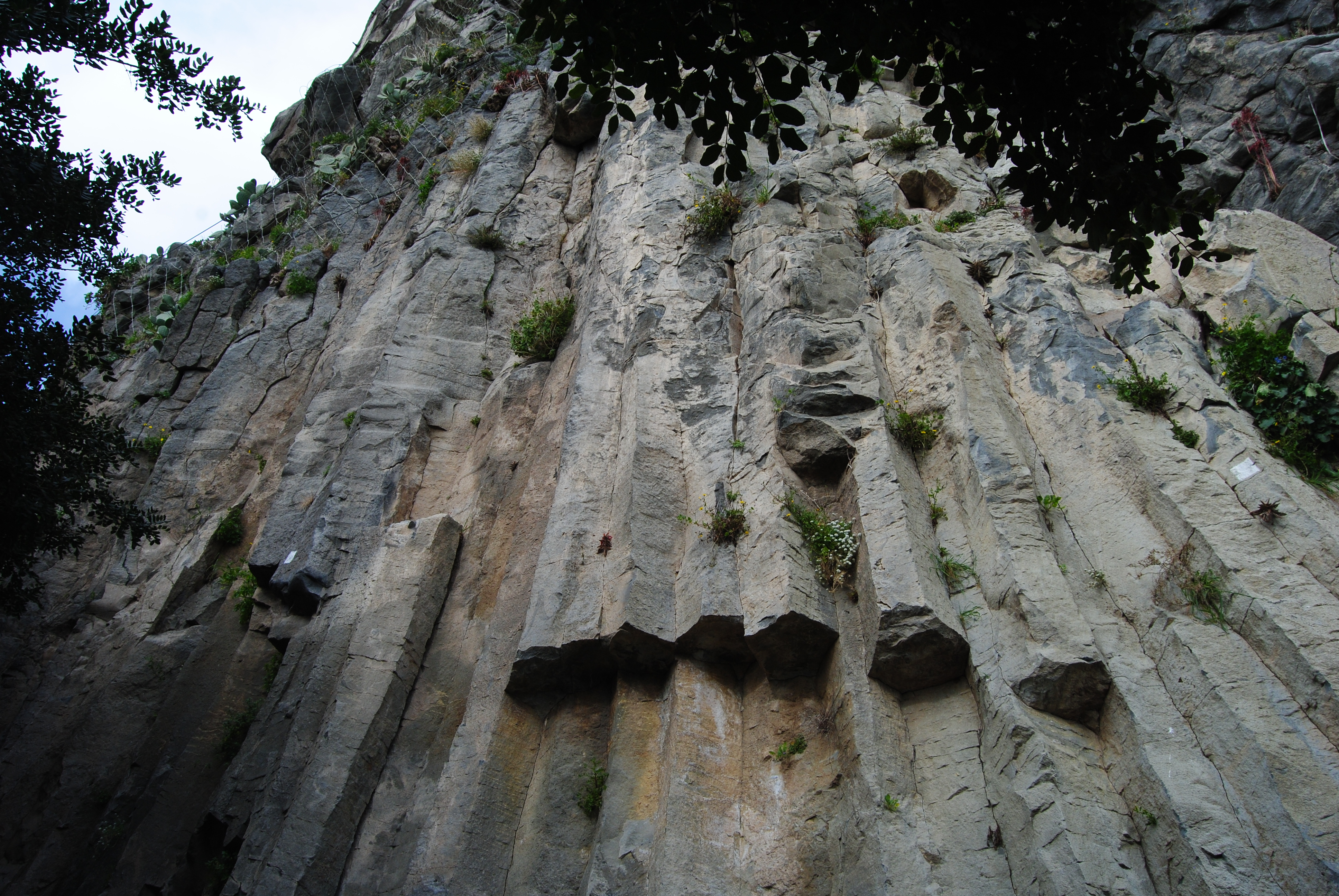 see below